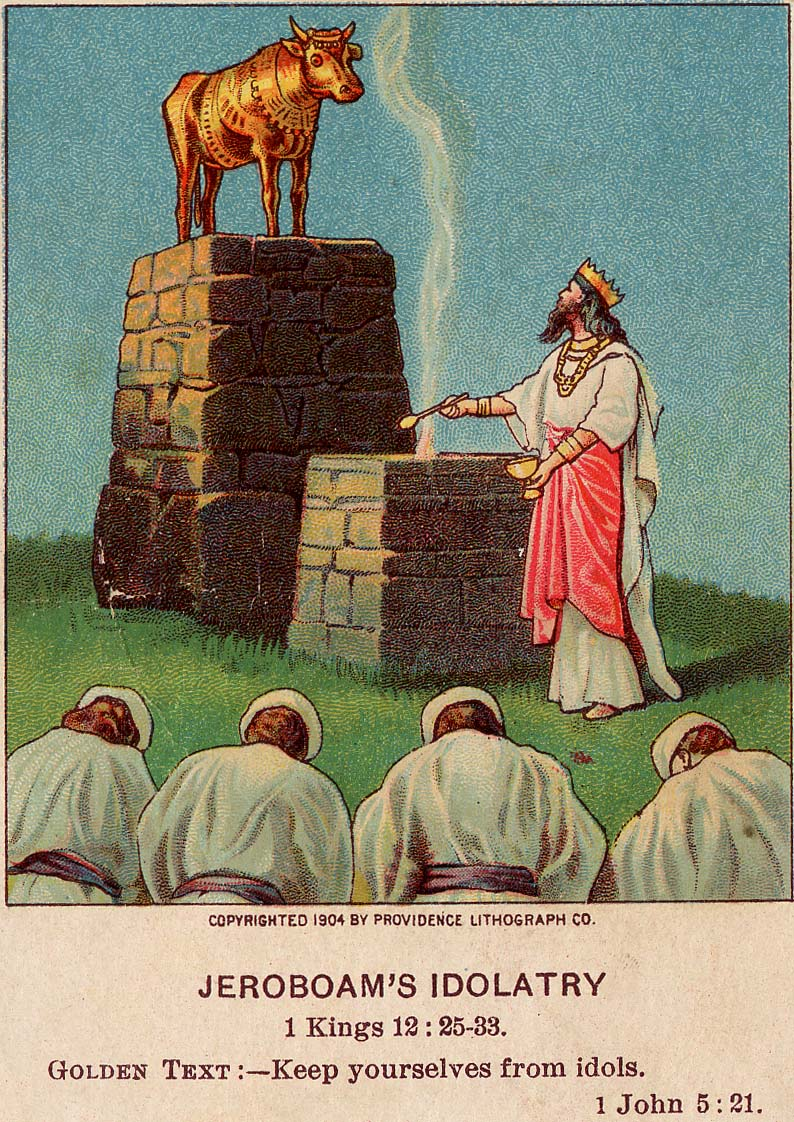 Jeroboam's idolatry. 1 Kings 12:25-33, Bible card published 1904 by the Providence Lithograph Company